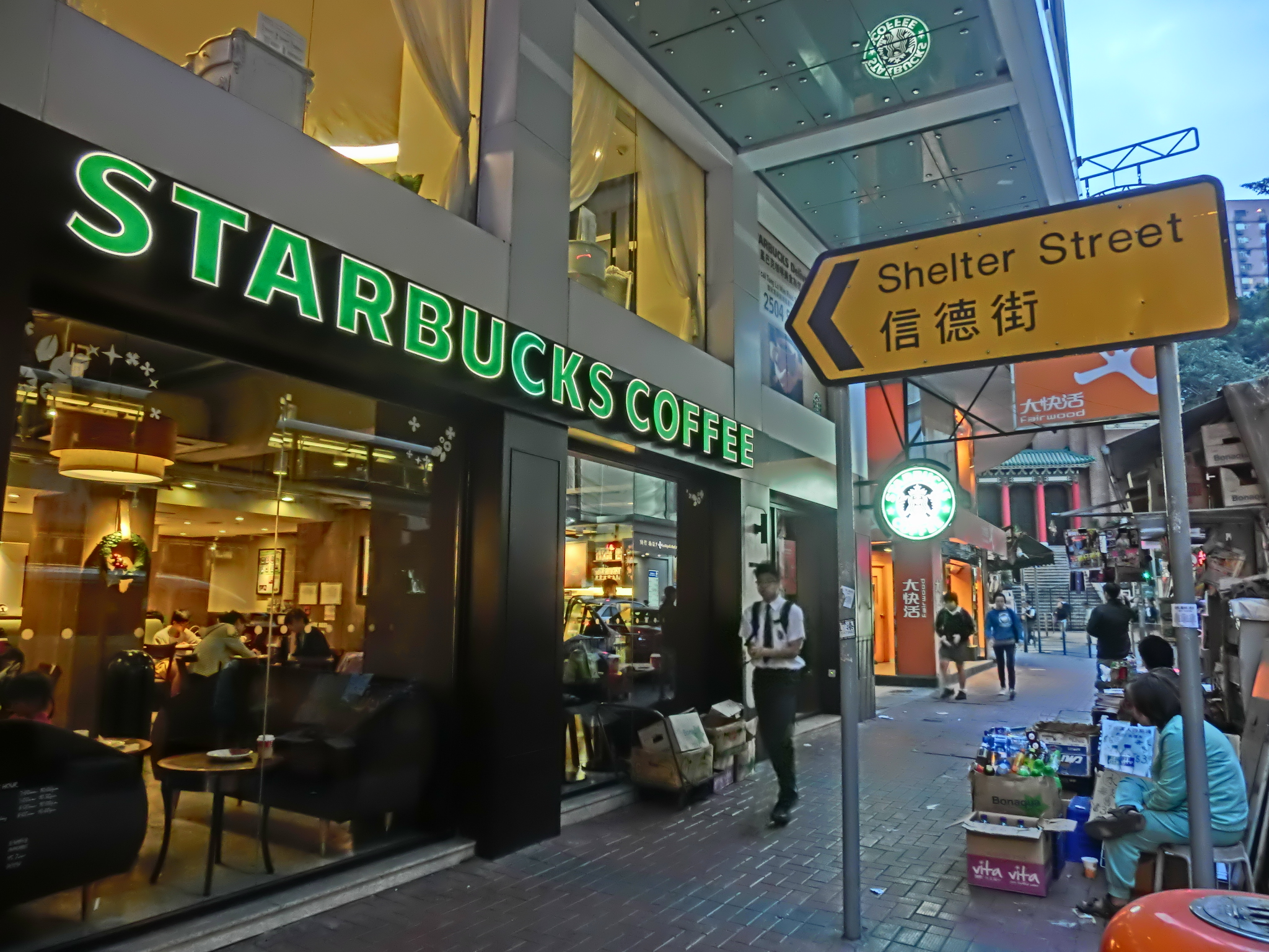 銅鑼灣 銅鑼灣道, Tung Lo Wan Road, Causeway Bay, Hong Kong